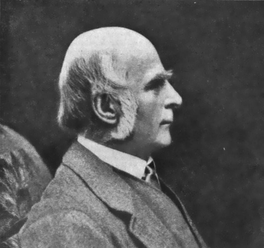 1912 photograph of Sir Francis Galton. Caption: "SIR FRANCIS GALTON - Who organized the science of Eugenics, and bequeathed his private fortune to endow the Laboratory of National Eugenics in The University of London"